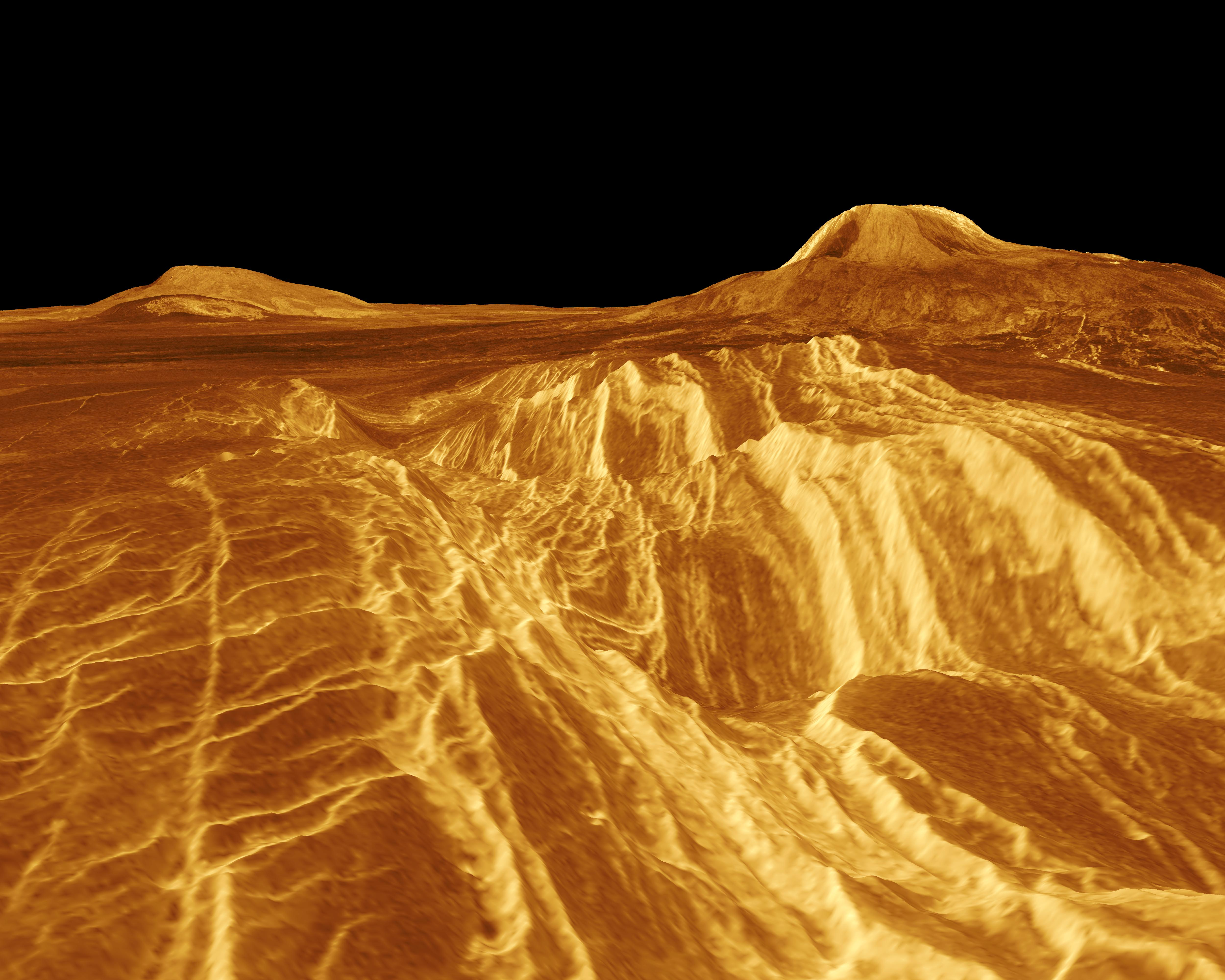 A portion of western Eistla Regio is shown in this three dimensional, computer-generated view of the surface of Venus. The viewpoint is at an elevation of 1.2 kilometers (0.75 mile) at a location 700 kilometers (435 miles) southeast of Gula Mons, the volcano on the right horizon. Gula Mons reaches 3 kilometers (1.8 miles) high and is located around 22 degrees north latitude and 359 degrees east longitude. Sif Mons, the volcano on the left horizon, has a diameter of 300 kilometers (186 miles) and a height of 2 kilometers (1.2 miles). Magellan imaging and altimetry data are combined to develop a three-dimensional computer view of the planet's surface. Simulated color based on color images from the Soviet Venera 13 and 14 spacecraft is added to enhance small-scale structure. This image was produced at JPL's Multimission Image Processing Laboratory by Eric De Jong, Jeff Hall and Myche McAuley. Magellan is a NASA spacecraft mission to map the surface of Venus with imaging radar. The basic scientific instrument is a synthetic aperture radar, or SAR, which can look through the thick clouds perpetually shielding the surface of Venus. Magellan is in orbit around Venus which completes one turn around its axis in 243 Earth days. That period of time, one Venus day, is the length of a Magellan mapping cycle. The spacecraft completed its first mapping cycle and primary mission on May 15, 1991, and immediately began its second cycle. During the first cycle, Magellan mapped more than 80 percent of the planet's surface and the current and subsequent cycles of equal duration will provide complete mapping of Venus. Magellan was launched May 4, 1989, aboard the space shuttle Atlantis and went into orbit around Venus August 10, 1990.